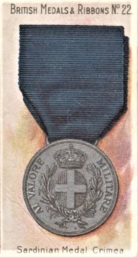 Campaign medal for Sardinian troops who participated in Crimean War (1854-56) against Russia